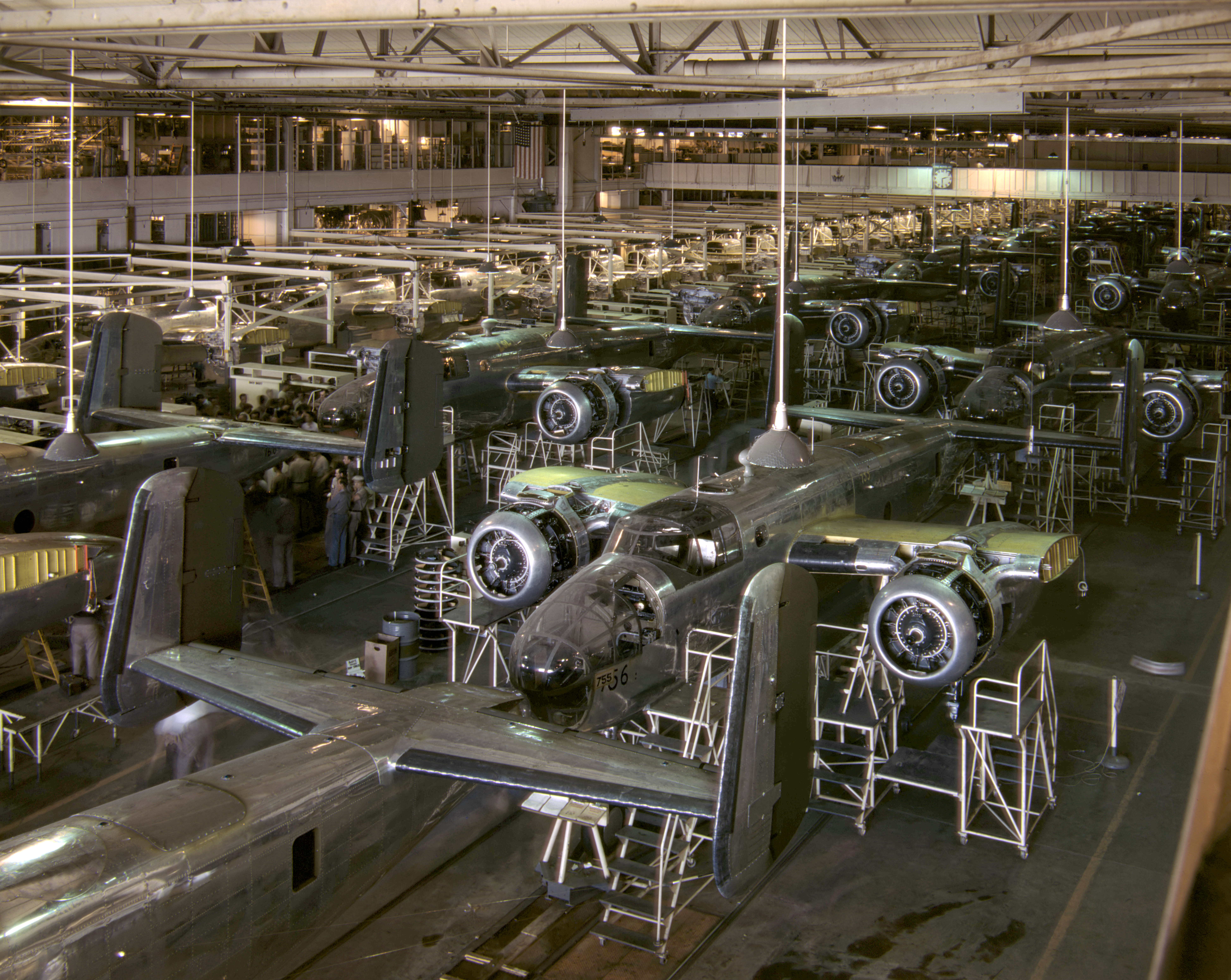 View of the B-25 final assembly line at North American Aviation's Inglewood, California, plant 1942